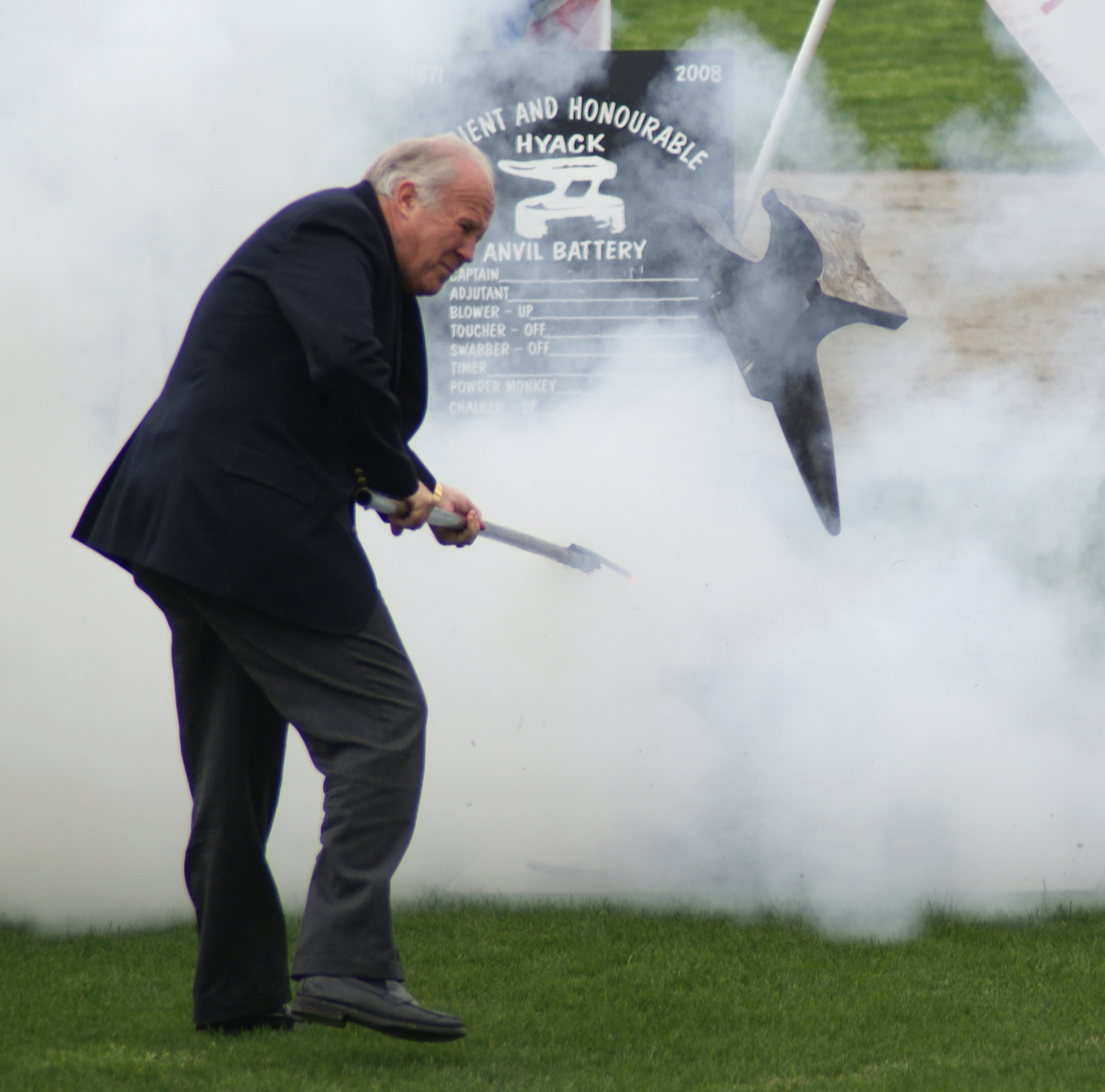 New Westminster Mayor Wayne Wright sets off one of the 21 anvil shots that make up the Ancient and Honourable Hyack Anvil Battery Salute, May 19, 2008.